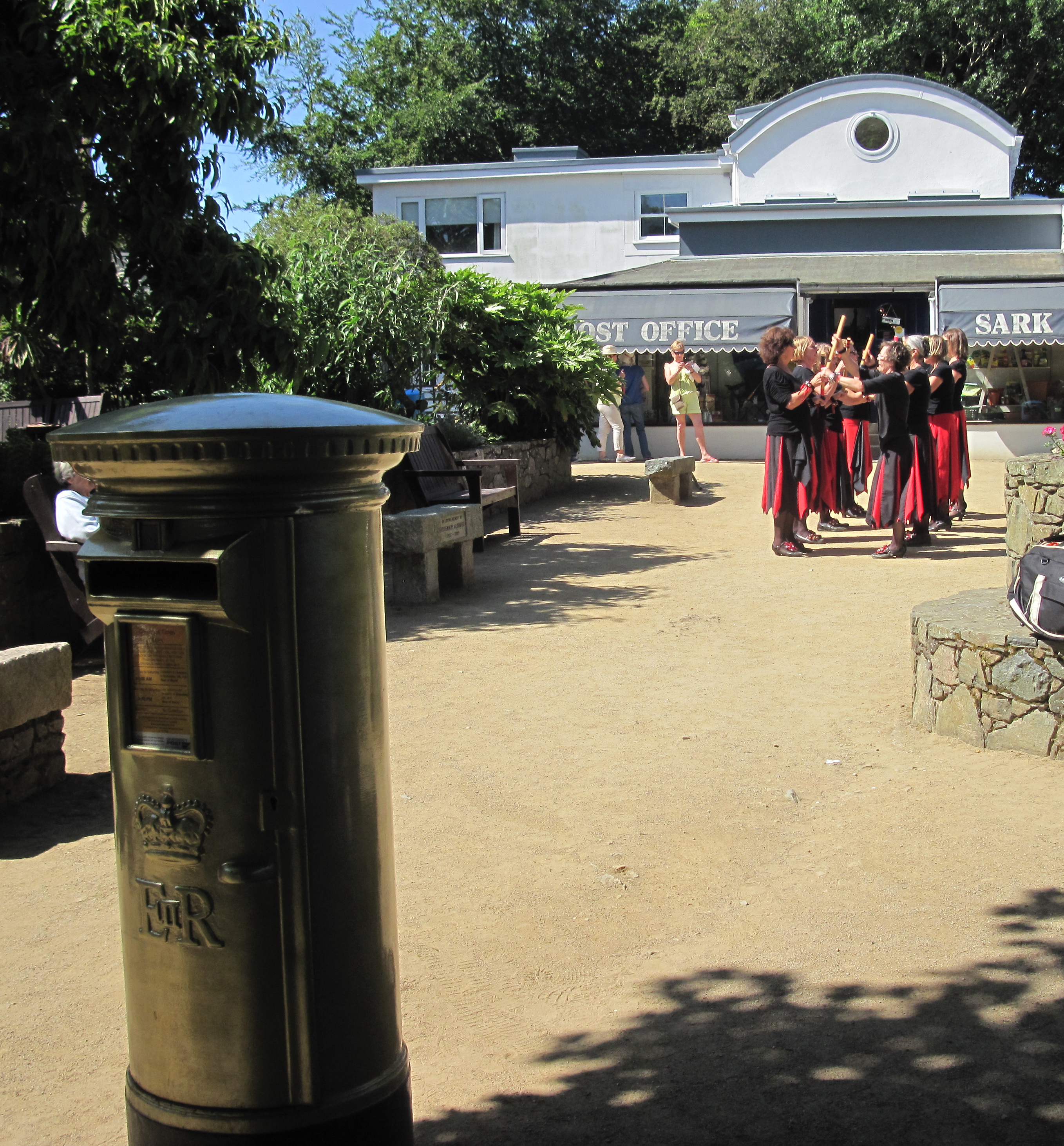 Sark Folk Festival 2013